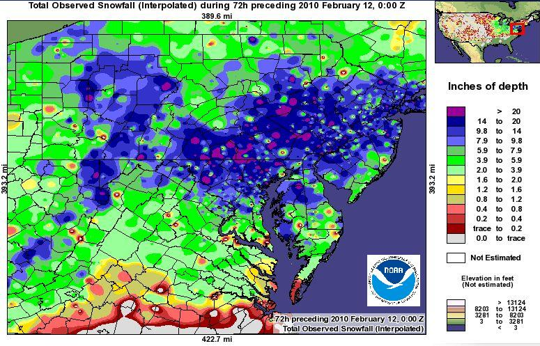 Second North American Blizzard of 2010 snowfall accumulation map. Courtesy of the National Weather Service